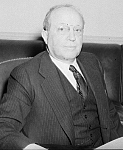 Eugene Meyer, publisher of the Washington Post and Chairman of the Federal Reserve